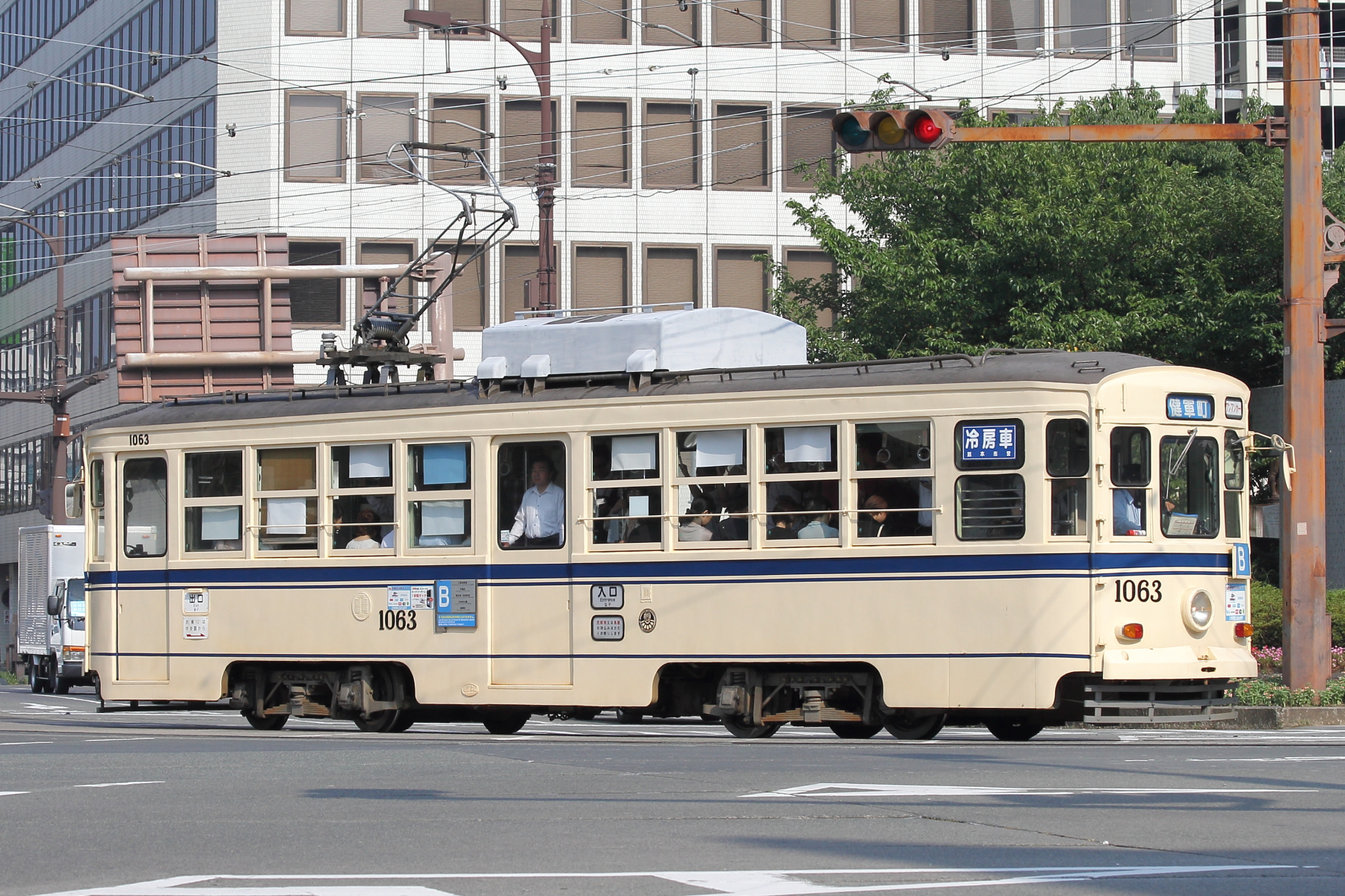 Kumamoto City Tram No.1063